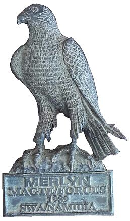 SADF Merlyn Forces emblem 1989 South West Africa